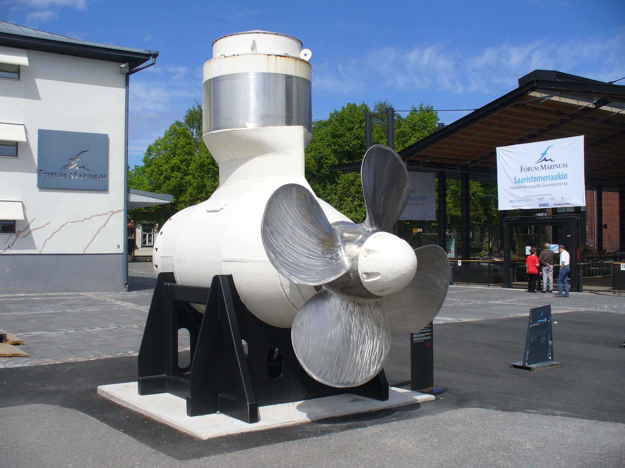 The word's first electric Azipod propulsion unit. Power 1500 kW; was installed and commissioned in 1990.